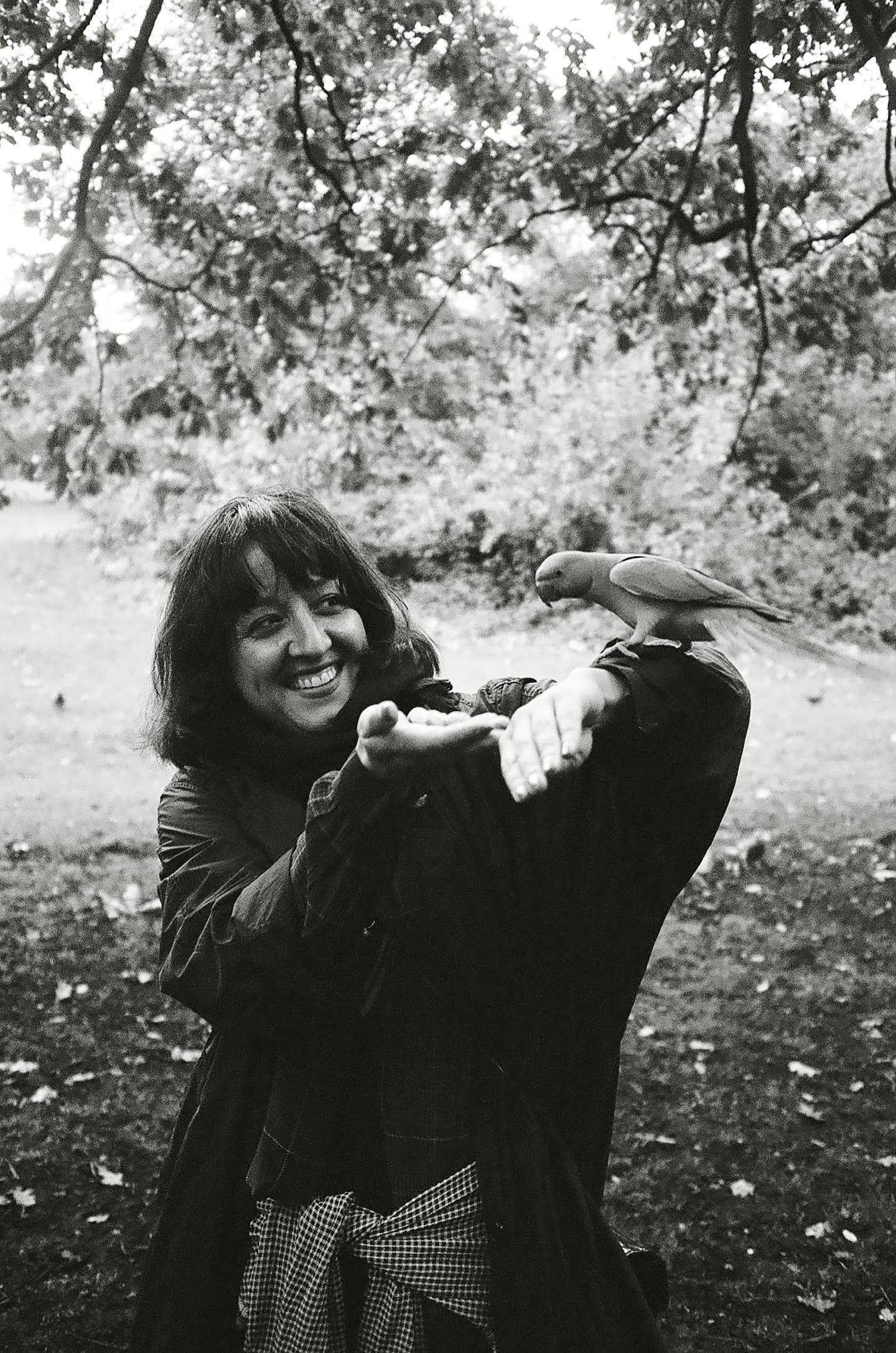 Tiziana with bird